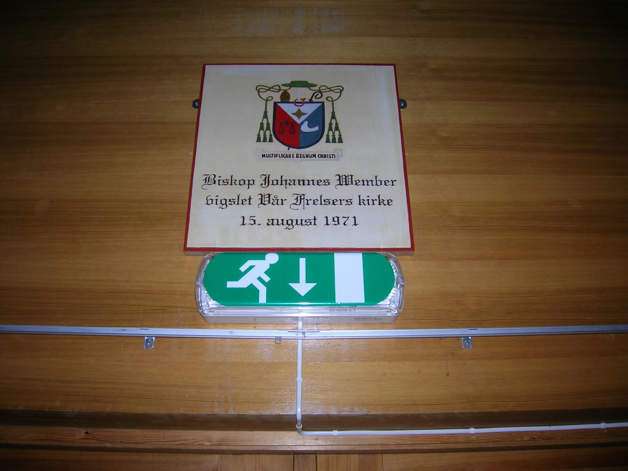 Memorial at the entrance of the initiation of the church by Bishop Johannes Wember (* 15. November 1900 in Dortmund, Germany; † 4. May 1980) on 15 August 1971. The Church of Selfors (The church of our Redeemer), Rana municipality, Norway.